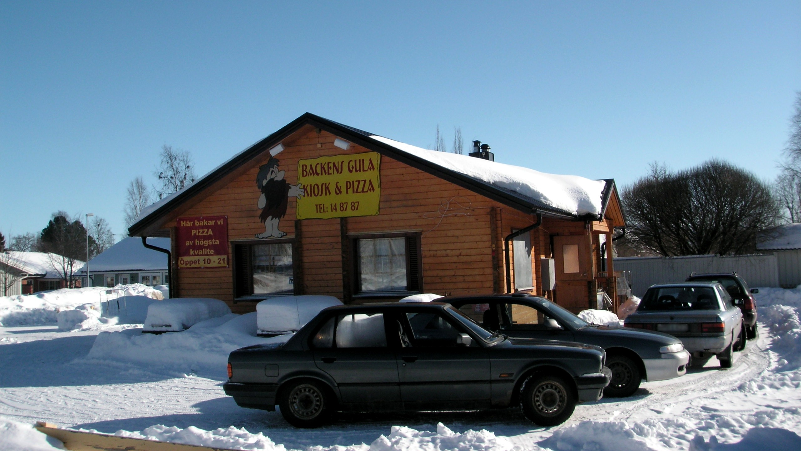 Pizzeria and convenience store "Backens Gula Kiosk och Pizza" in western Umeå, Sweden.